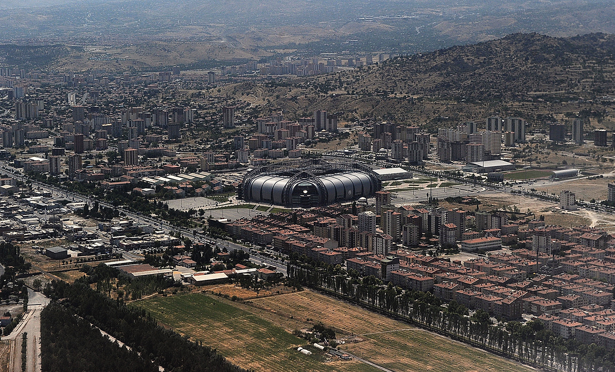 Kadir Has Stadium in Kayseri, Turkey